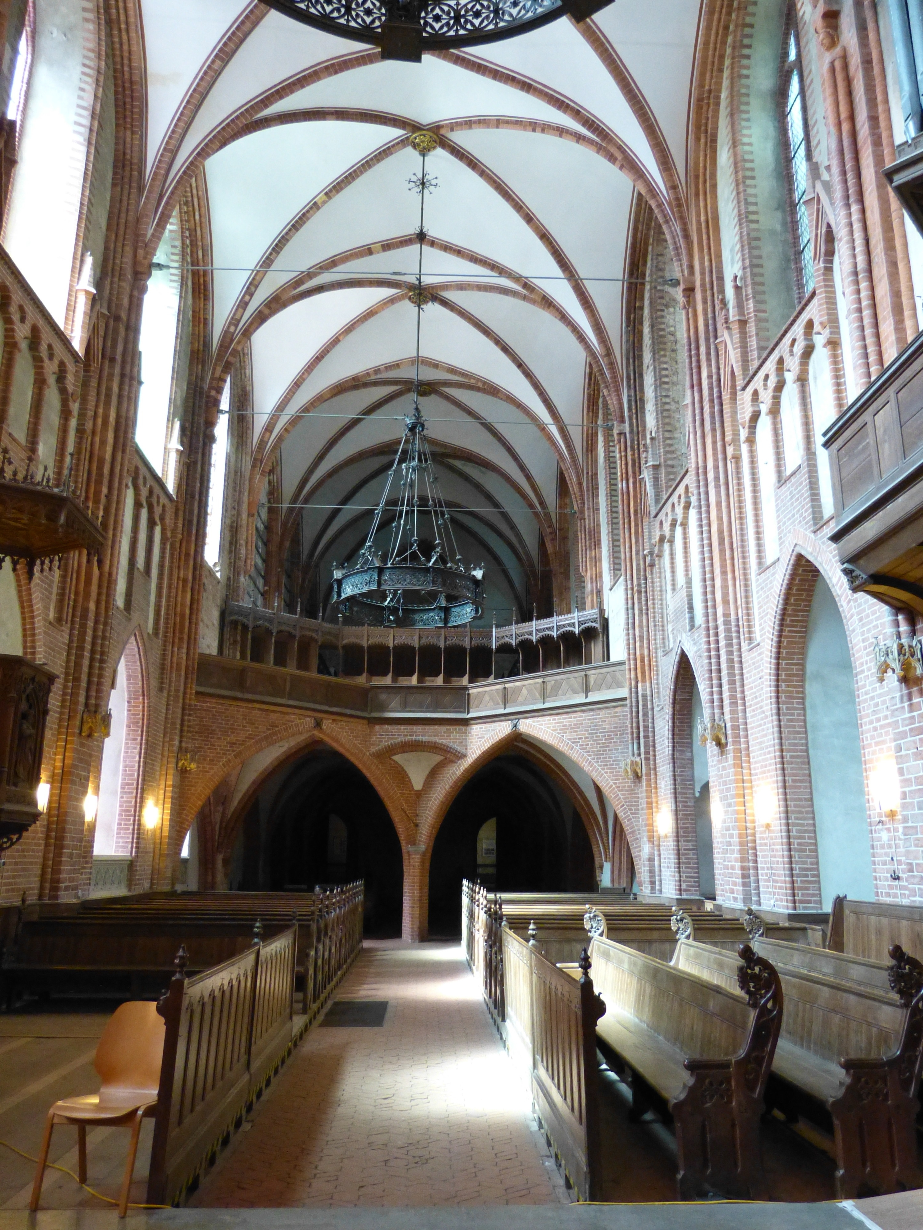 Dobbertin ( Mecklenburg ). Monastery church: Interior.